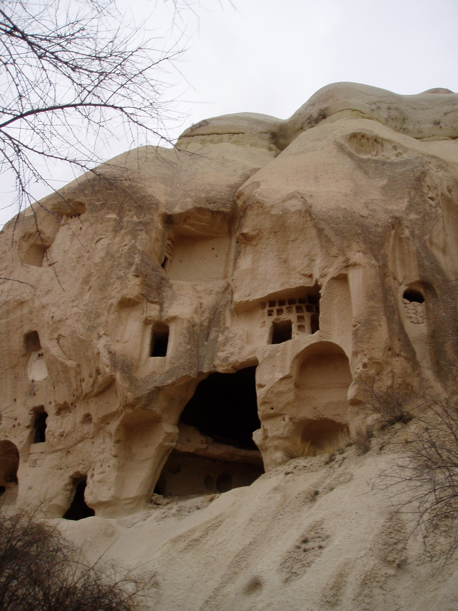 Cappadocia.